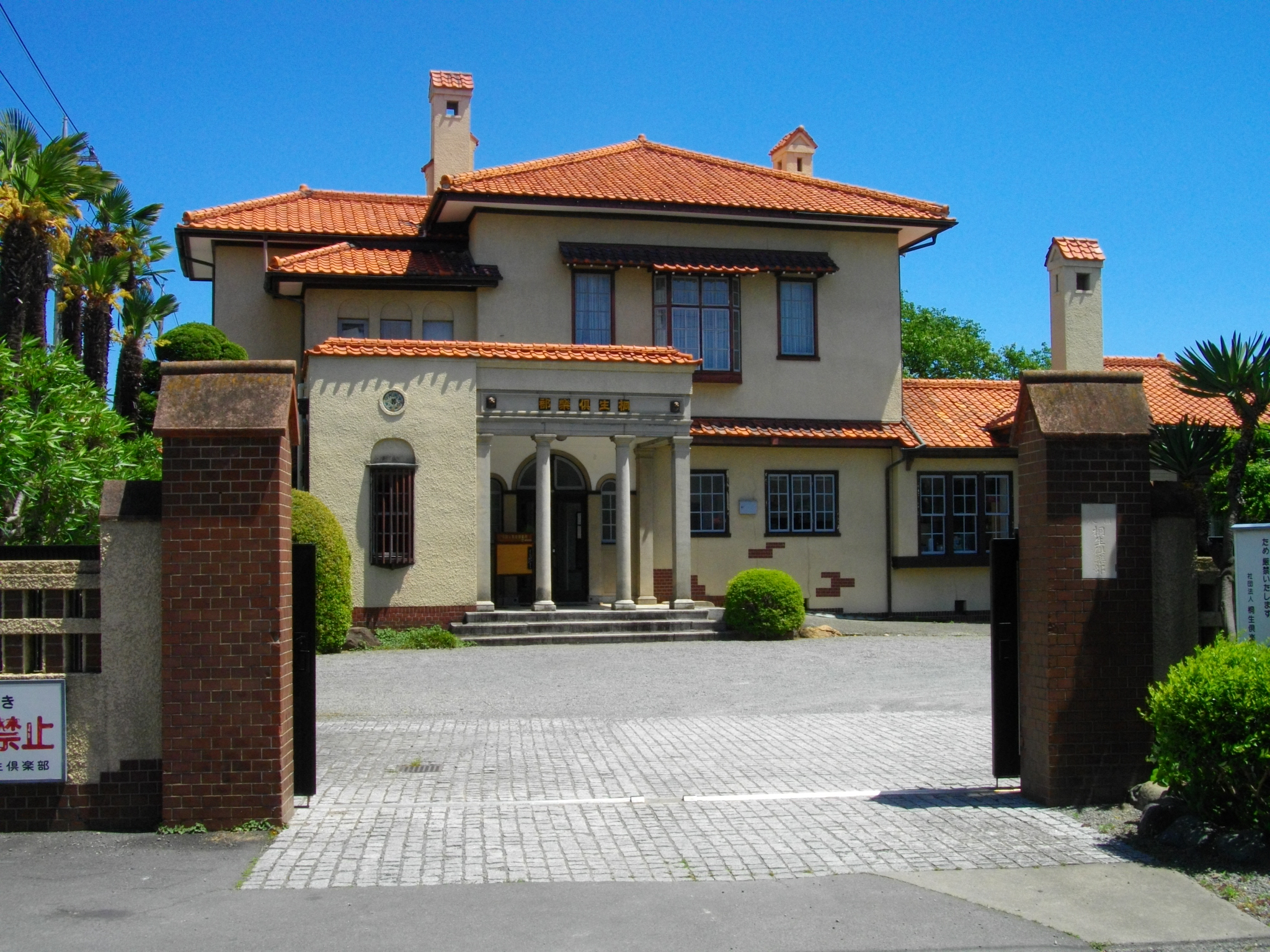 Kiryu Club Building